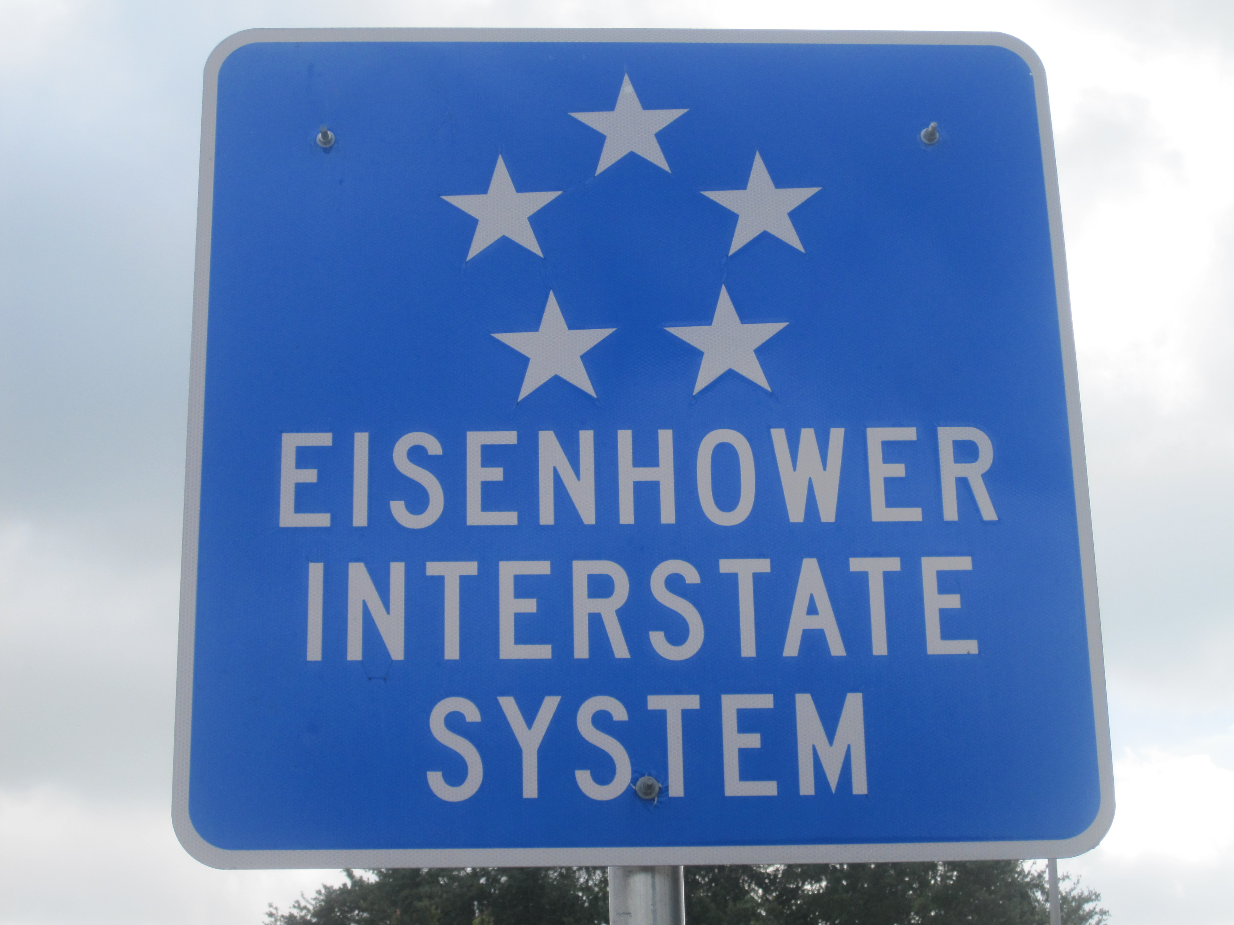 I took photo with Canon camera.